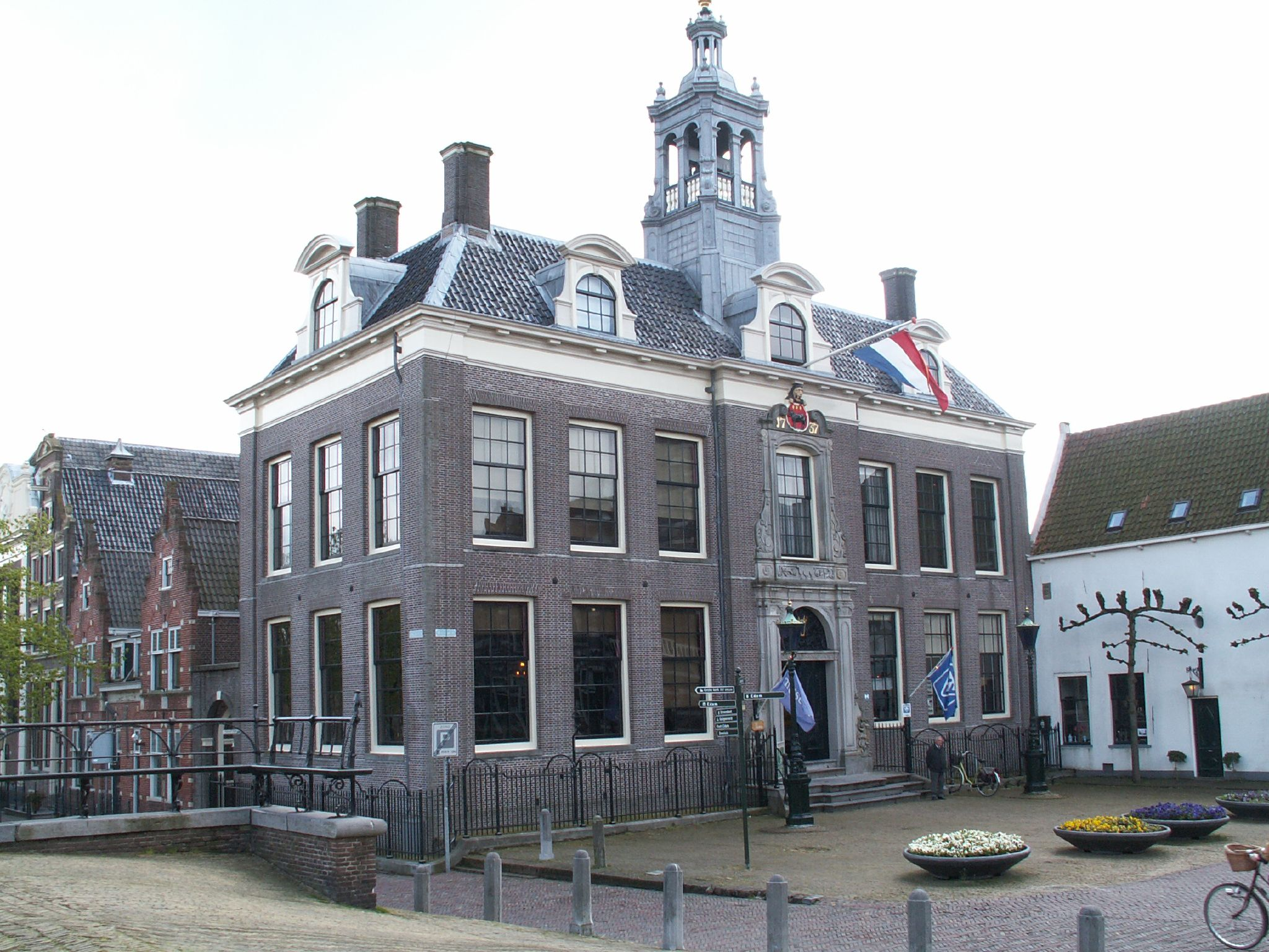 Edam City, Holland